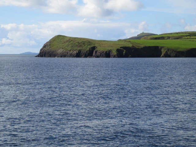 Doonsheane Promontory Fort Viewed looking across Trabeg from the top of the cliff above Kinard Strand, Doonsheane Promontory Fort is on the near headland. The distant hill-top building is the signal tower on Ballymacadoyle Hill in V4398.